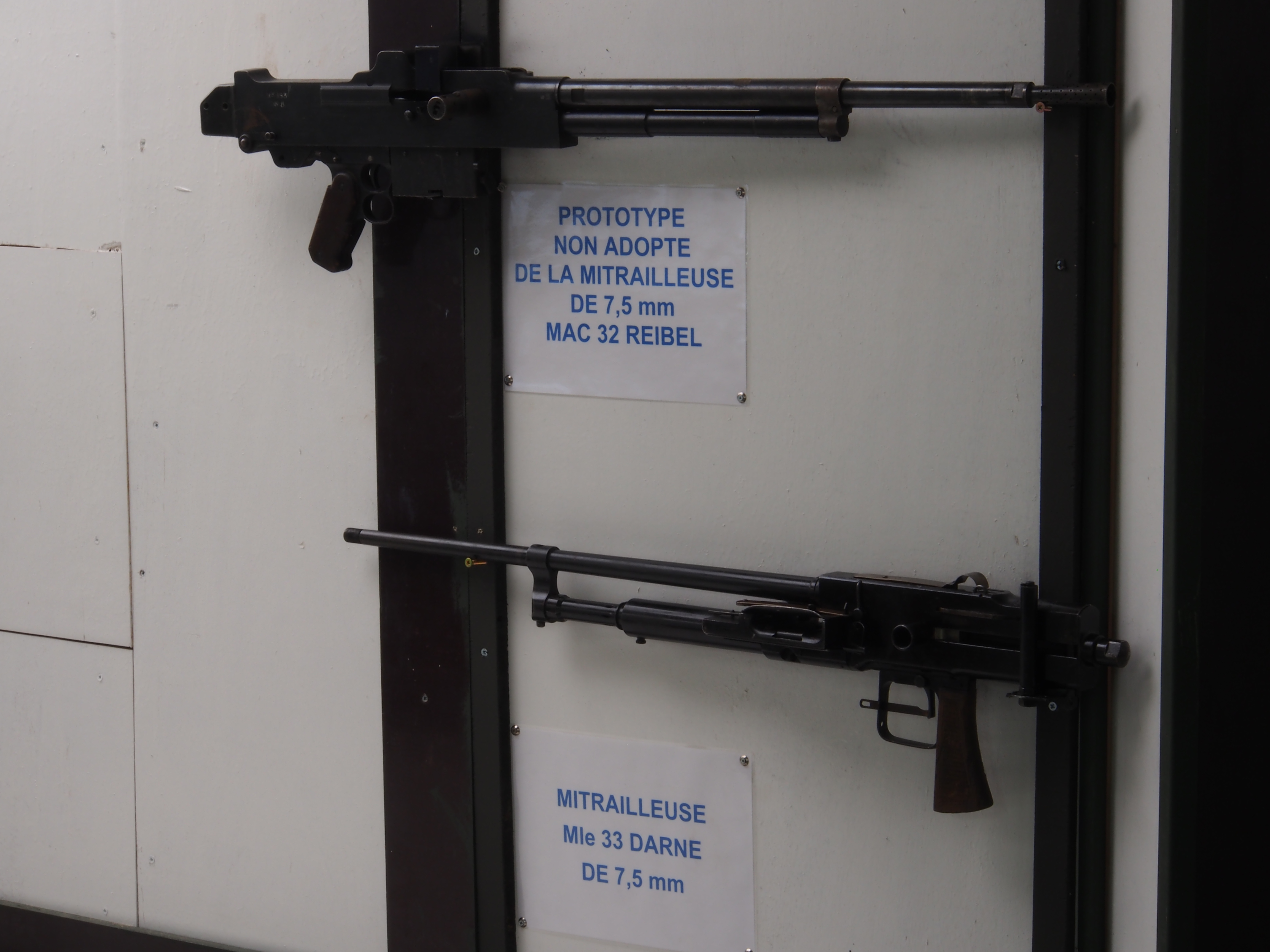 Fort de Fermont and its museum -Prototype of a 7.5mm MAC 32 Reibel and Mle 33 7.5mm Darne machine gun.